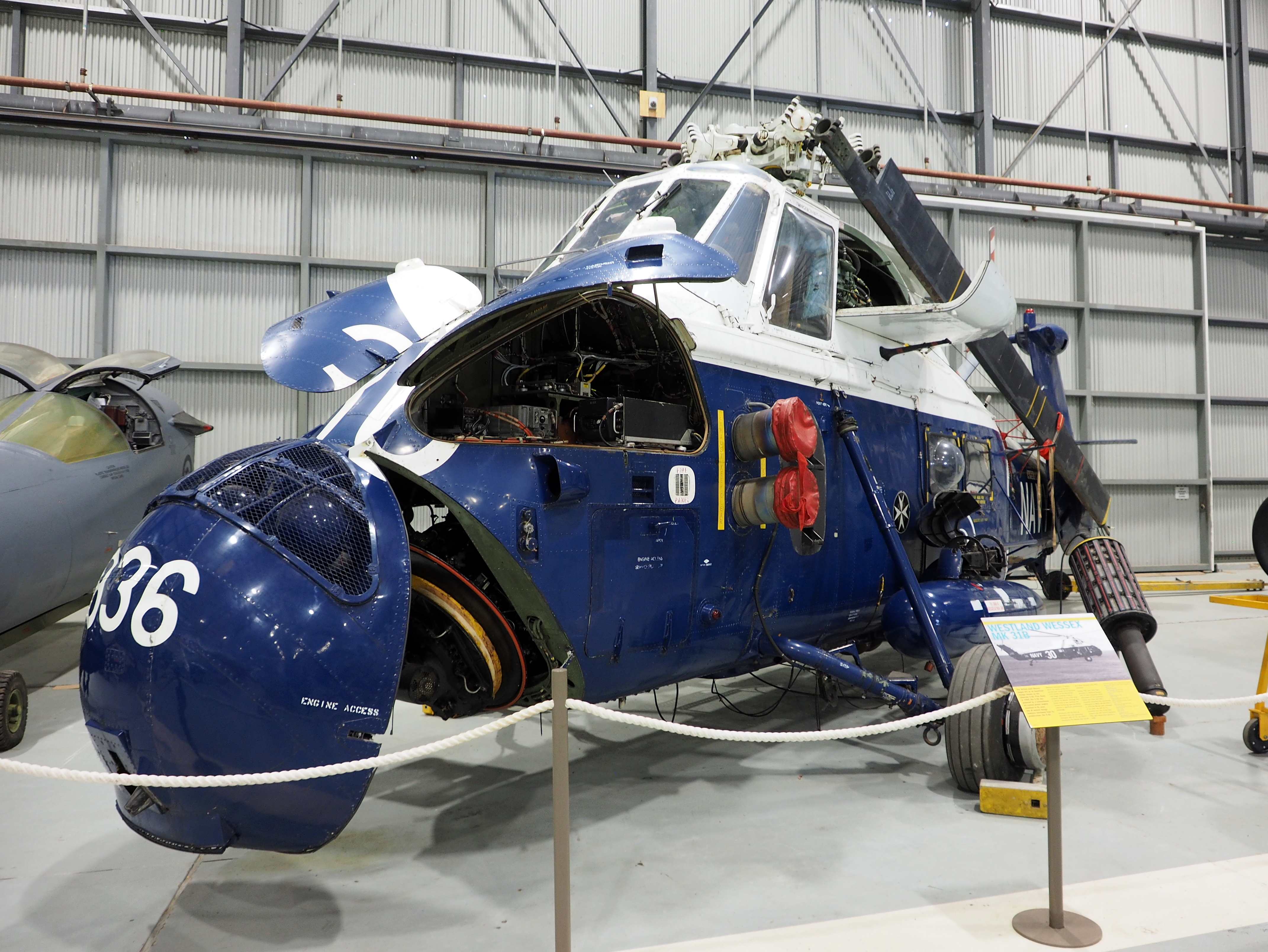 A former Royal Australian Navy Westland Wessex helicopter on display at the Fleet Air Arm Museum